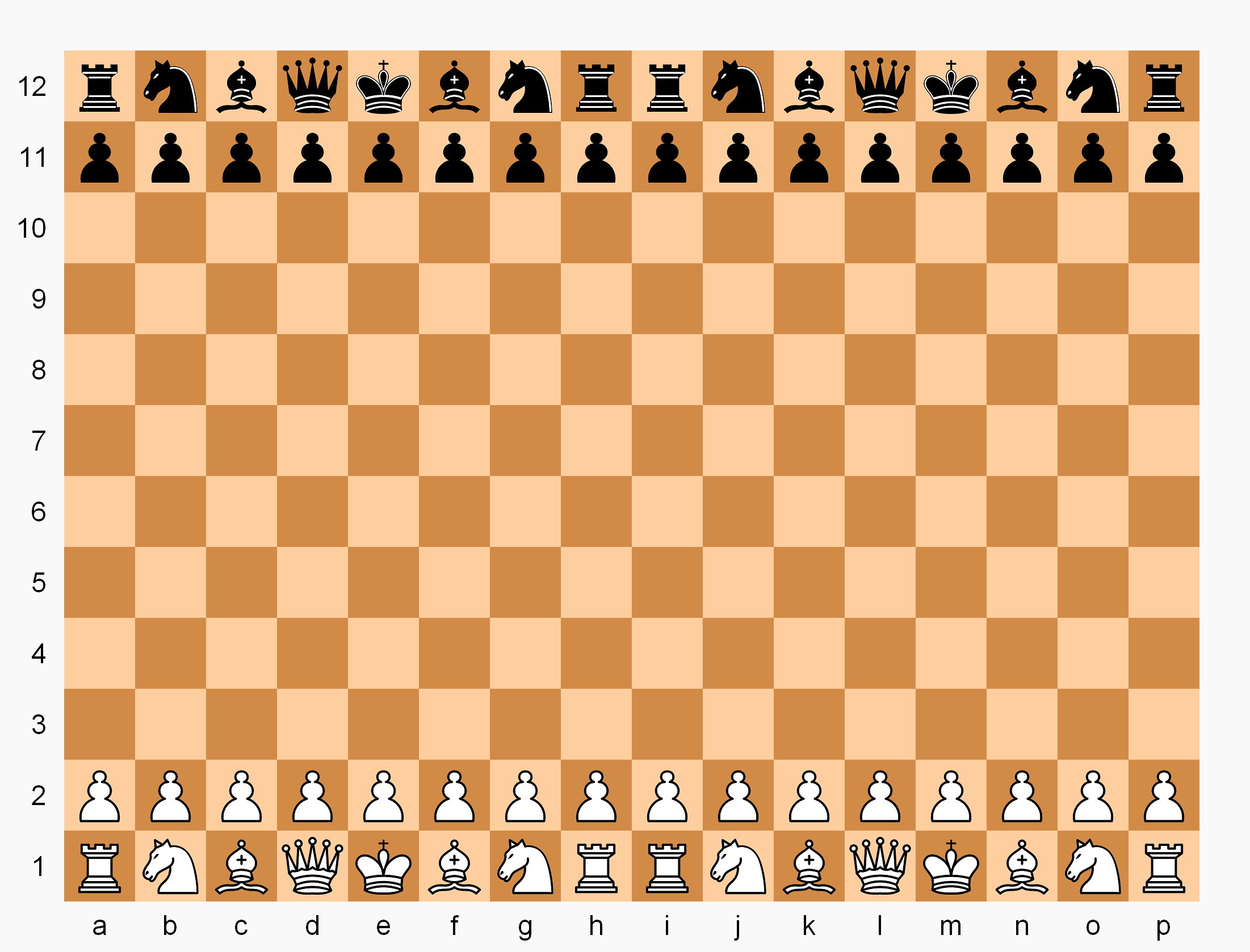 Double Chess invented by Julian Hayward (1916). Using the great free-use icons fashioned by User:Dbenbenn (David Benbennick); all done in MS PAINT.